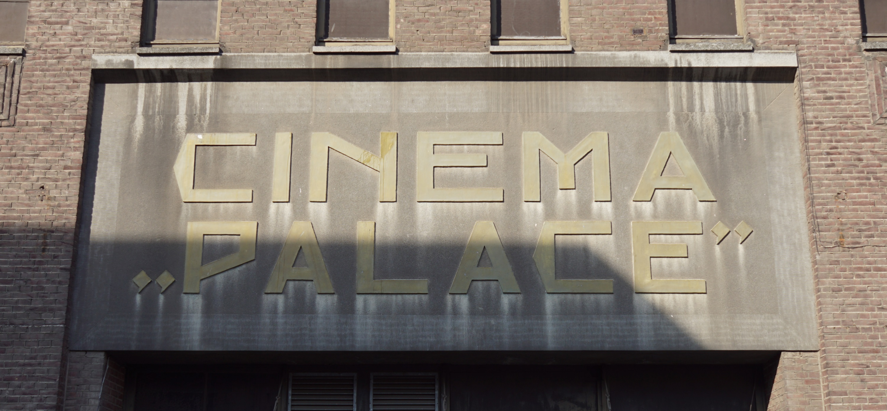 Former Cinema Palace, Lage Barakken 12, Maastricht, The Netherlands. Detail.